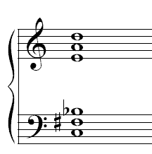 Mystic chord - Alexander Scriabin